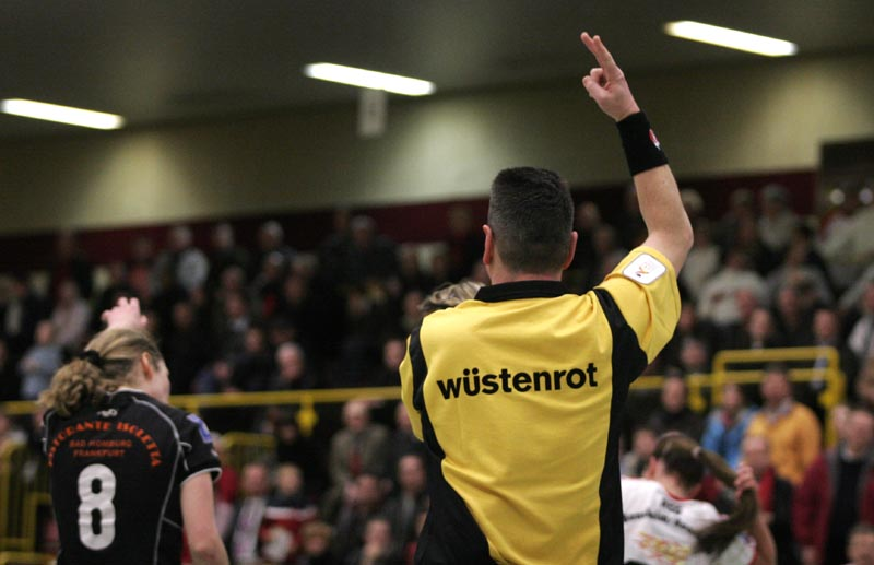 2 minutes suspension, shown by the referee during the handball game HSG Bensheim/Auerbach - TSG Ober-Eschbach, on January 27th 2007 in the Weststadt Hall in Bensheim (Germany).